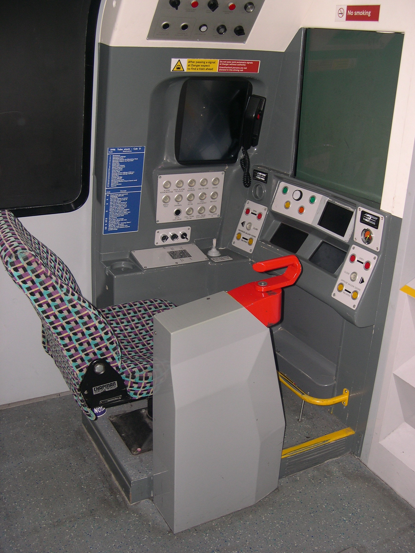 The 1996 stock train simulator in London Transport Museum